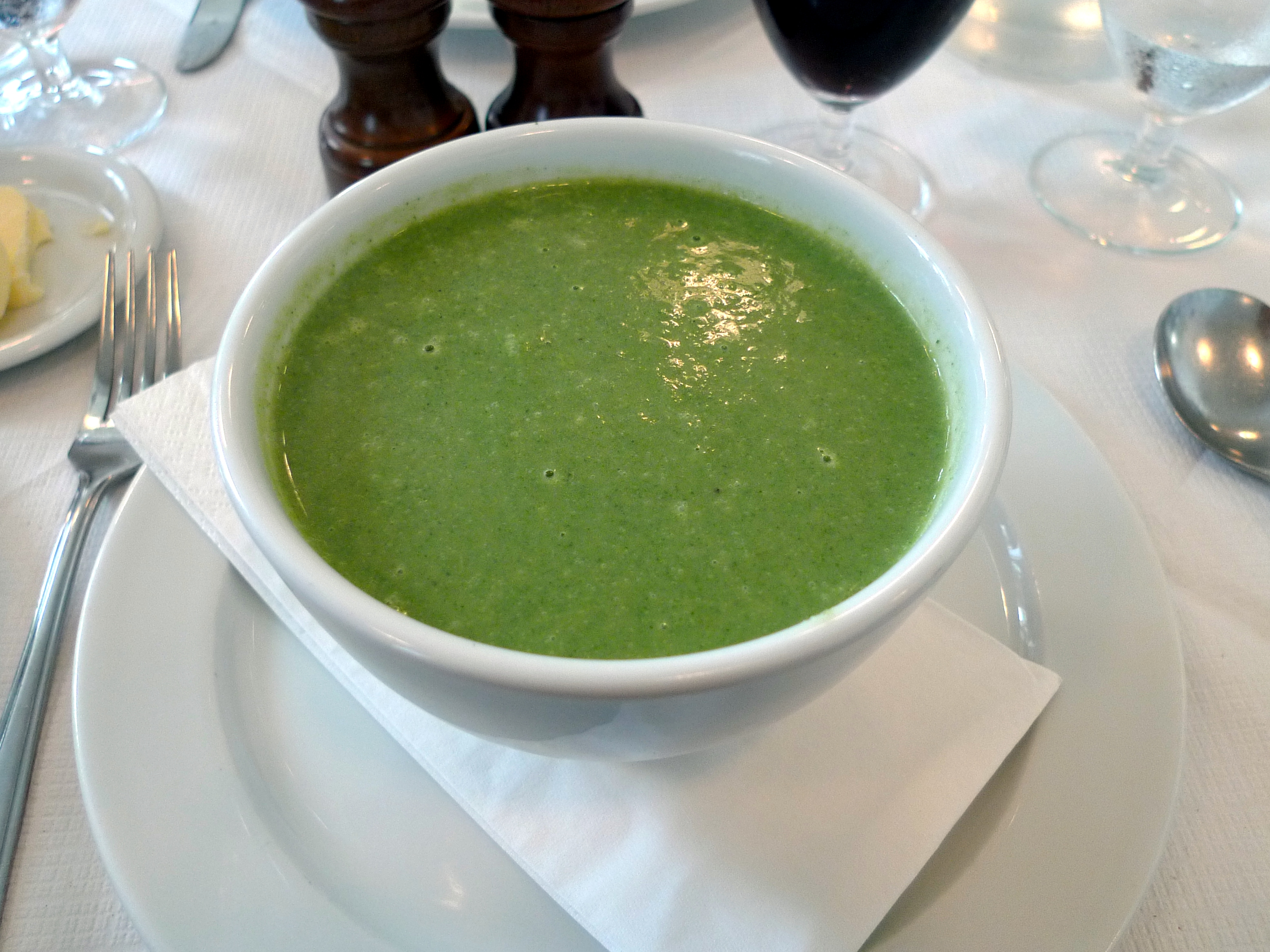 Nettle soup. Great. At St John Restaurant, St John Street.